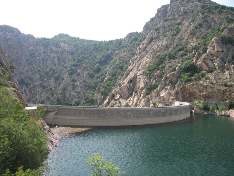 Tolla, Corsica, summer 2006.